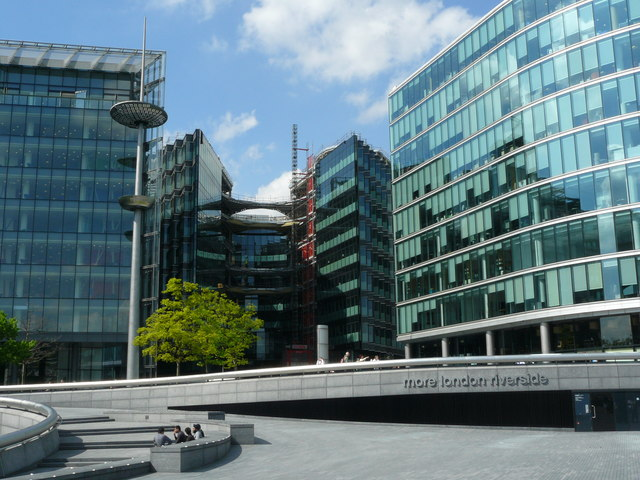 More London Riverside Situated beside the South Bank. Photograph taken with the Scoop to the left of picture.